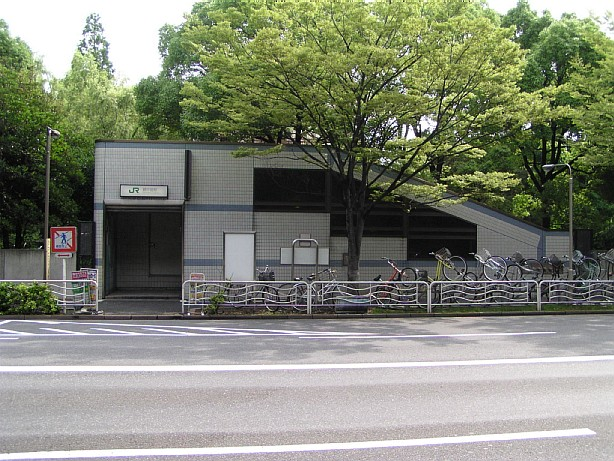 Exit 1 of JR East Etchūjima Station